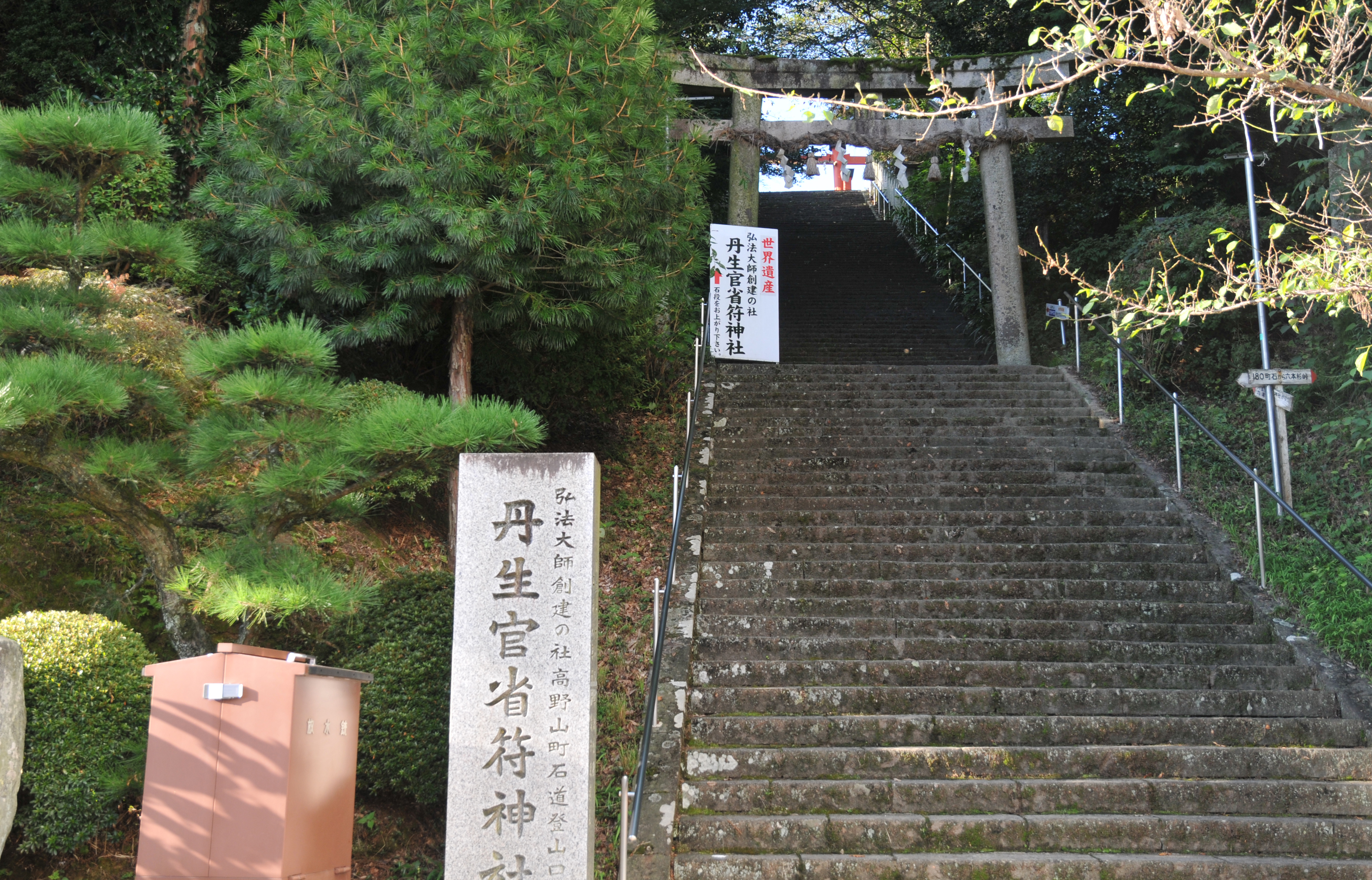 Stairway to Niukanshōbu-jinja